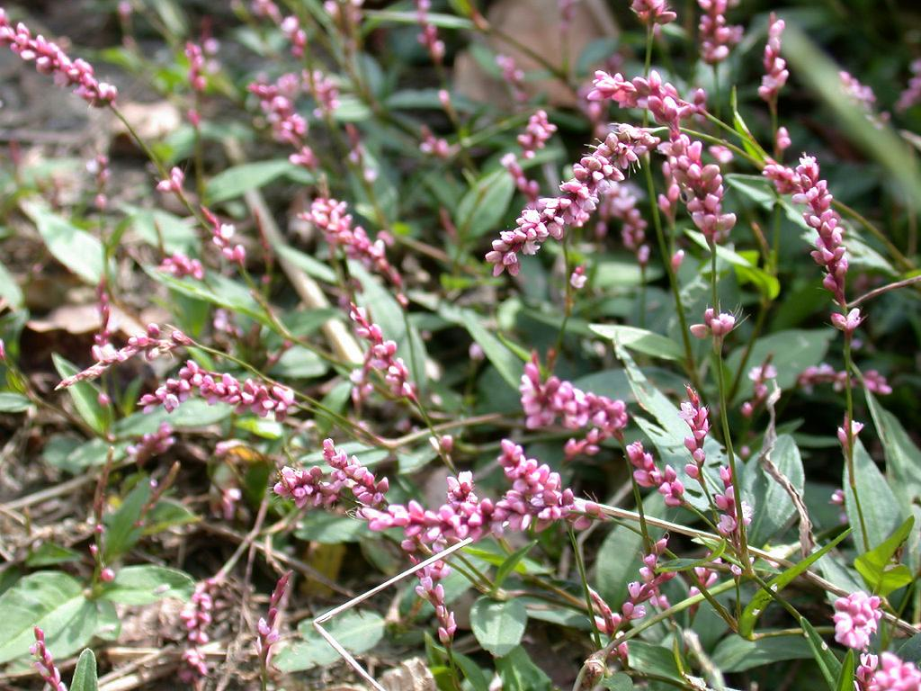 Polygonum longisetum(Polygonaceae) Japanese name:Inutade Date;2006,11;Tanabe city, Wakayama prefecture, Japan Author;Keisotyo